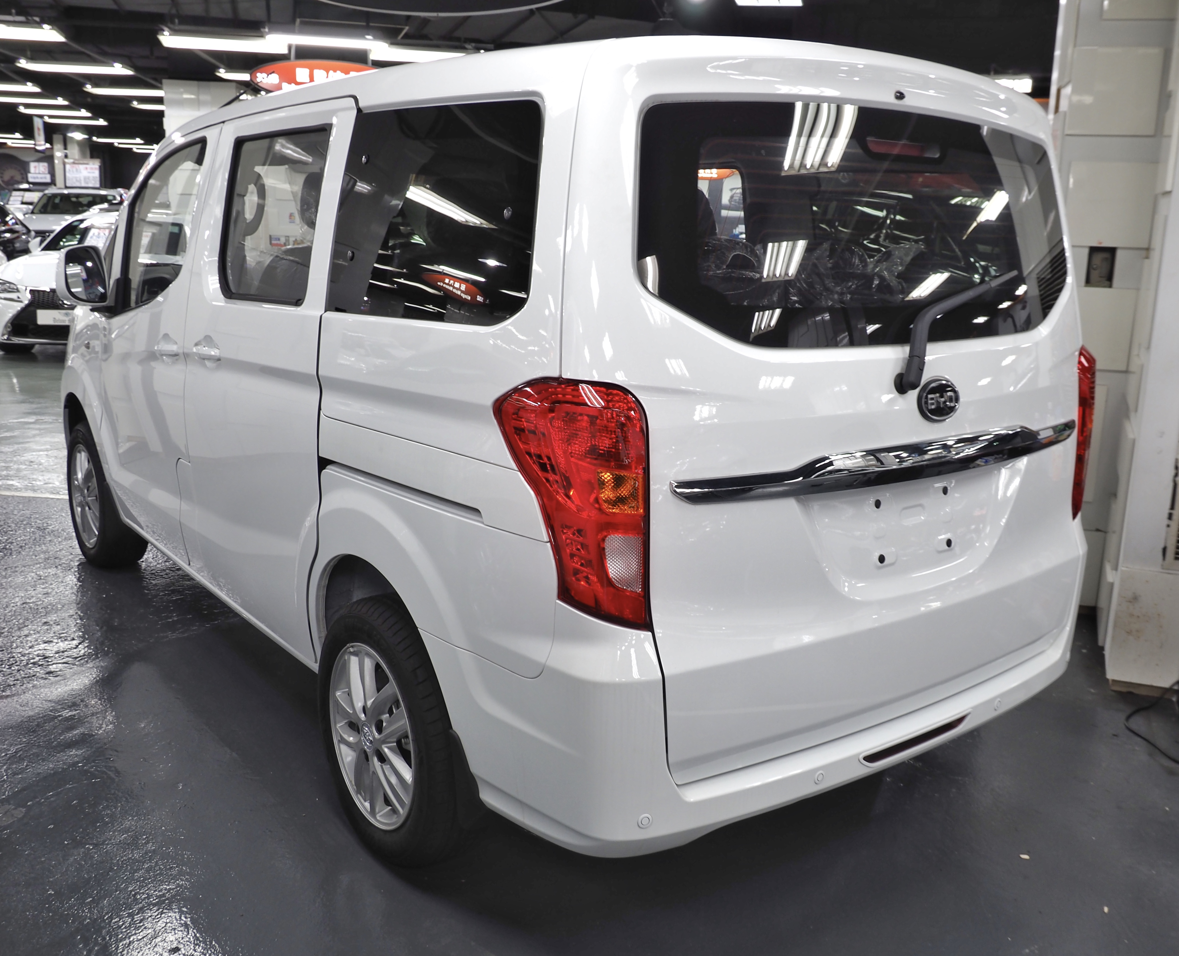 A 2015 BYD T3 taken in Kowloon, Bay, Hong Kong.